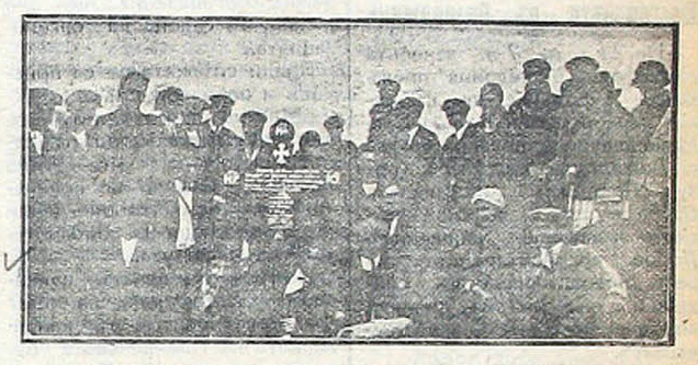 Radon Todev's Grave October 1926